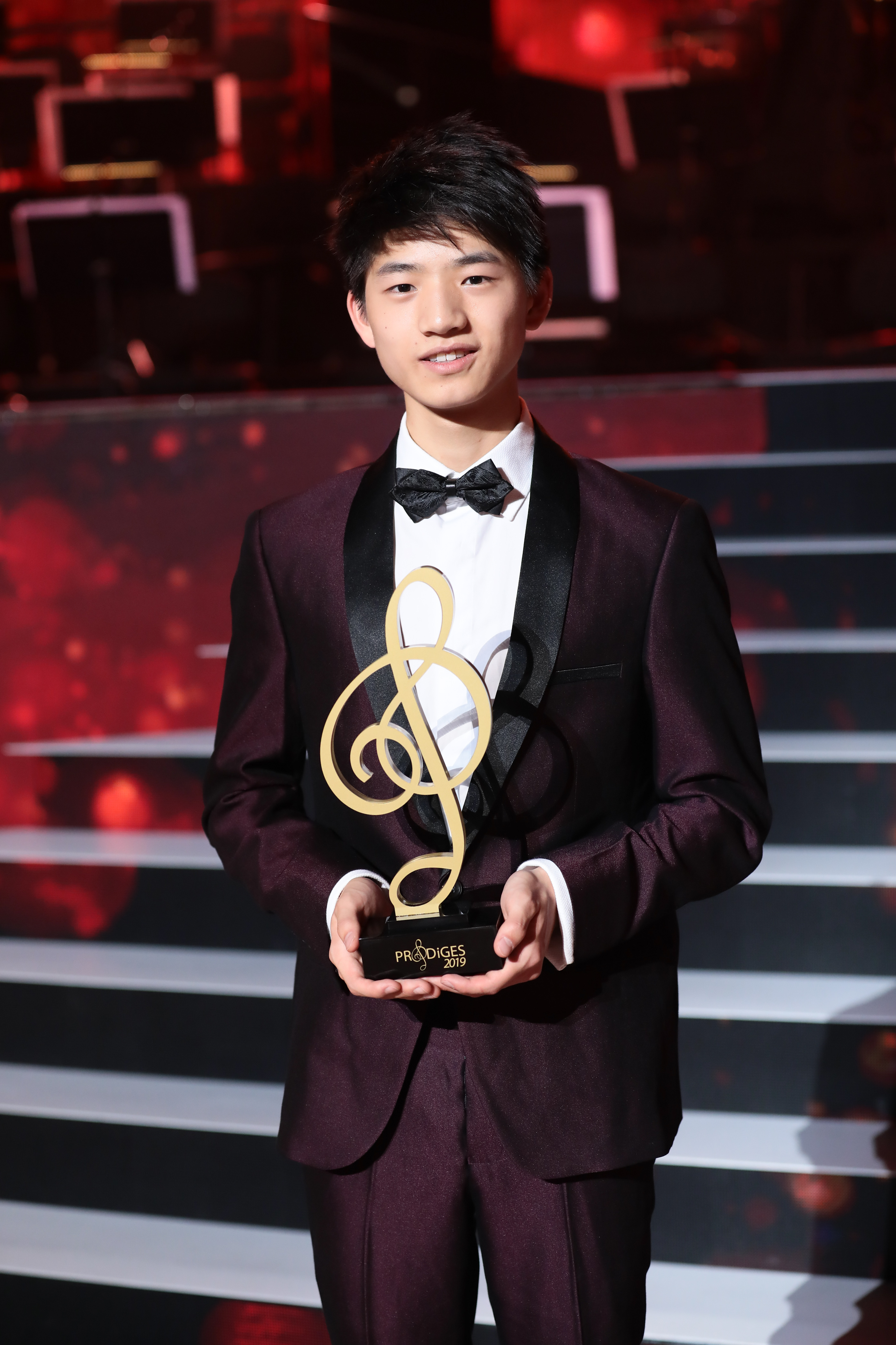 Pianist Paul Ji standing with his award after winning Prodiges 2019 competition